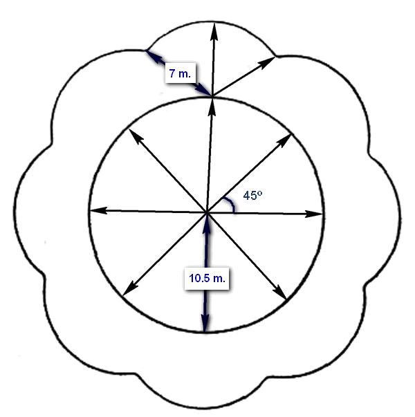 The shrine of Perun in Novgorod, a self-made scheme